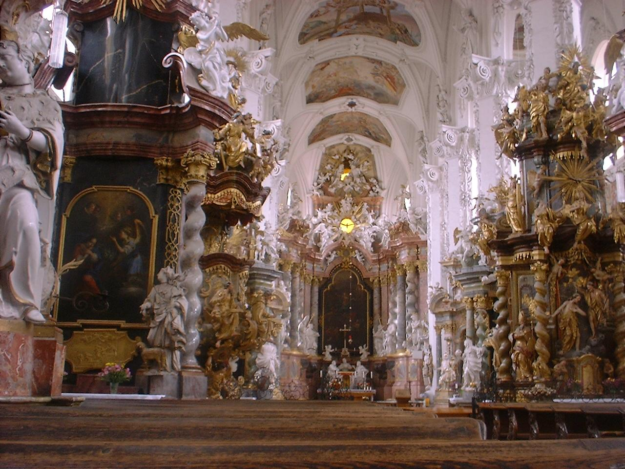 Interior of post cistercian church in Neuzelle in Brandenburg, Germany